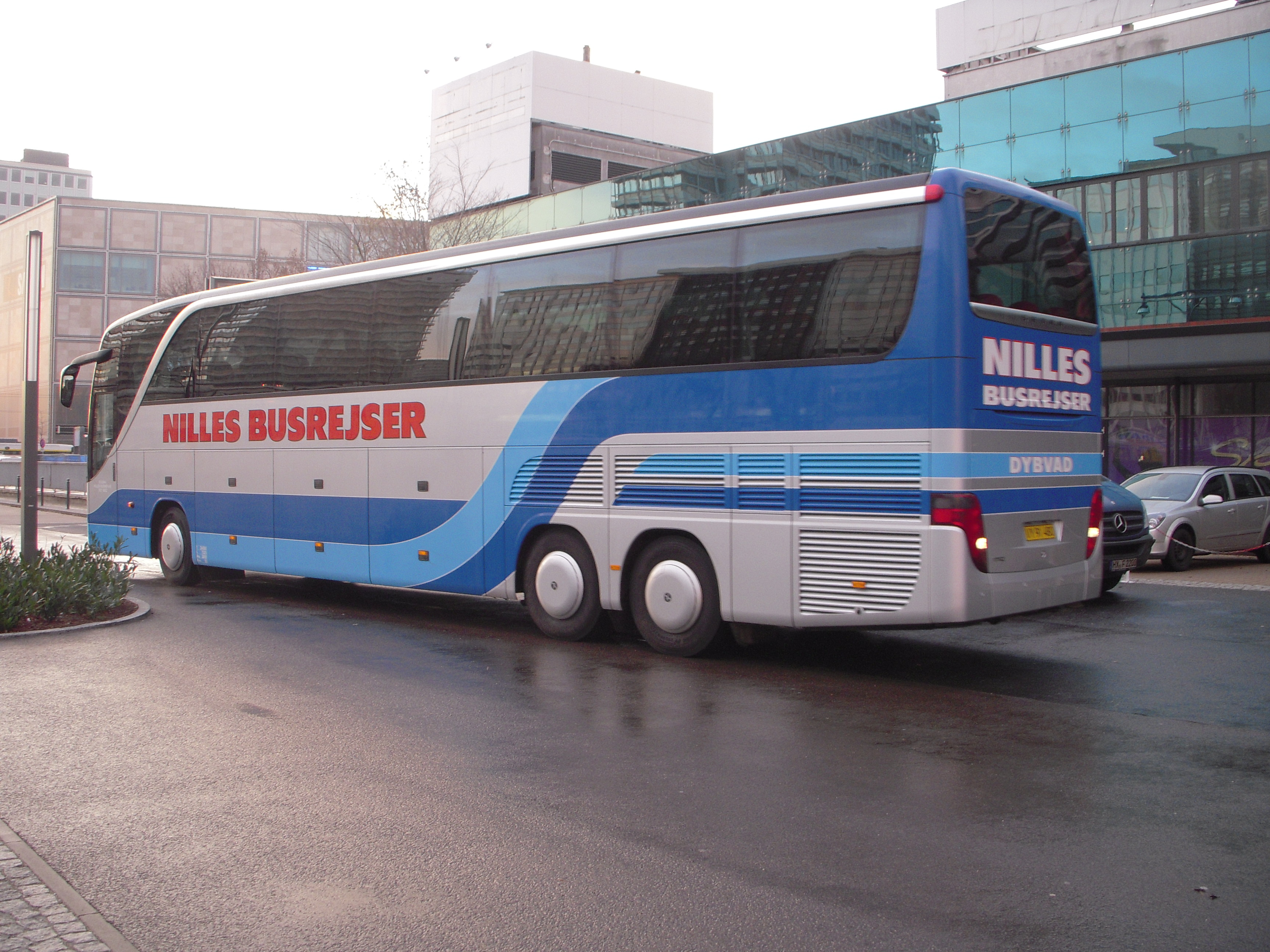 Setra S 416 HDH from NILLES Busrejser in Denmark. Bus with 55 seats in front of the Hotel Park Inn in Berlin. December 12, 2011.